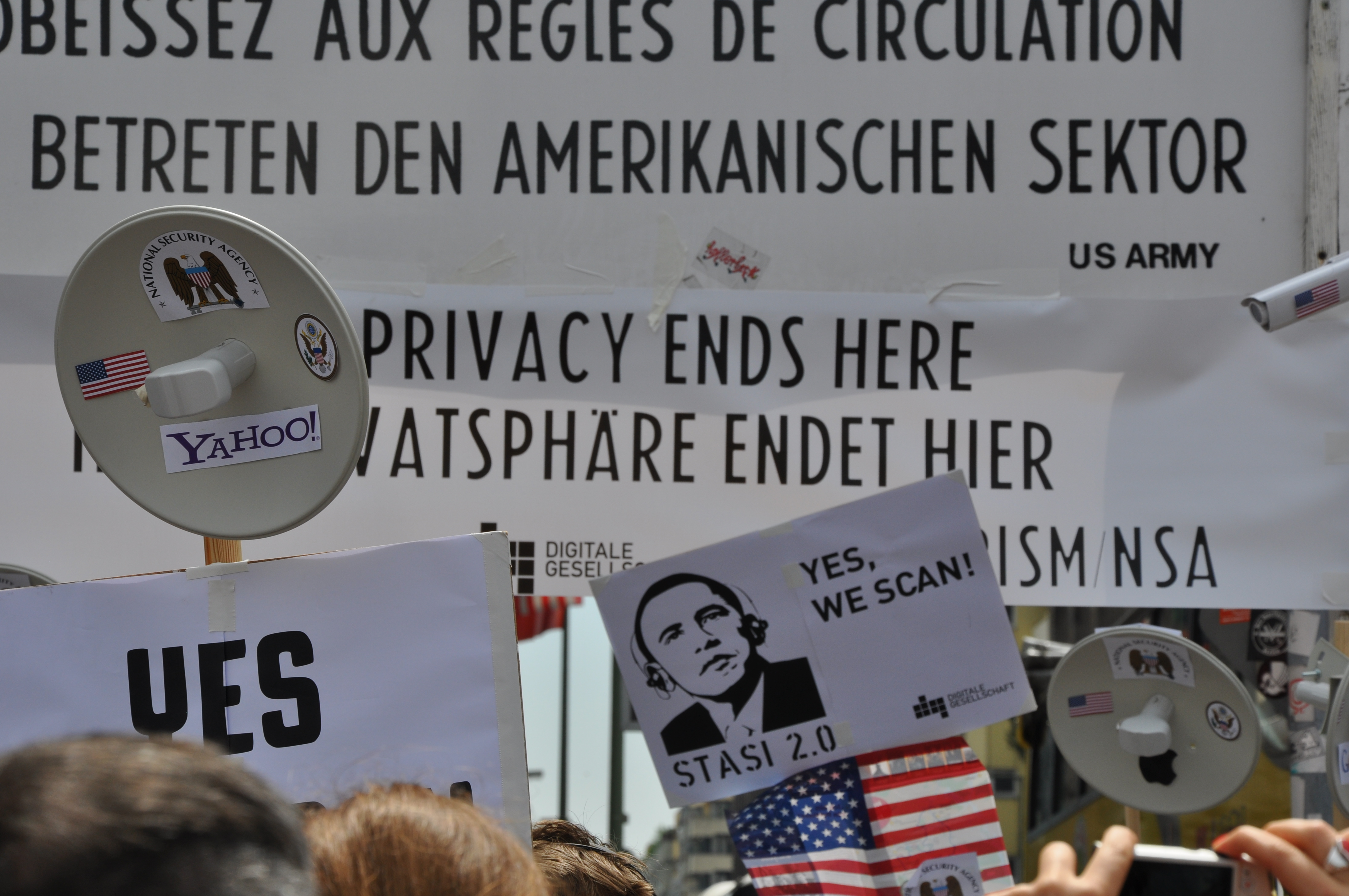 Yes we scan - Demo am Checkpoint Charlie